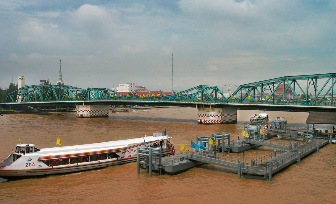 Bangkok, Thailand: Saphan Phut ("Memorial Bridge") over Chao Phraya with Chao Phraya Express Boat at Tha Saphan Phut ("Memorial Bridge Pier").